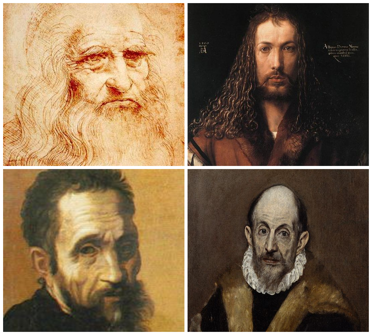 Collagechristian painters. Anyone can use these original photos themselves among others and make another collage of (Christians) themselves or remix as they wish, as long as they give the correct source and usage/Copyright given. Dont delete the photos, if one becomes unusable due to copyright, please dont delete, just replace the photo or i will.